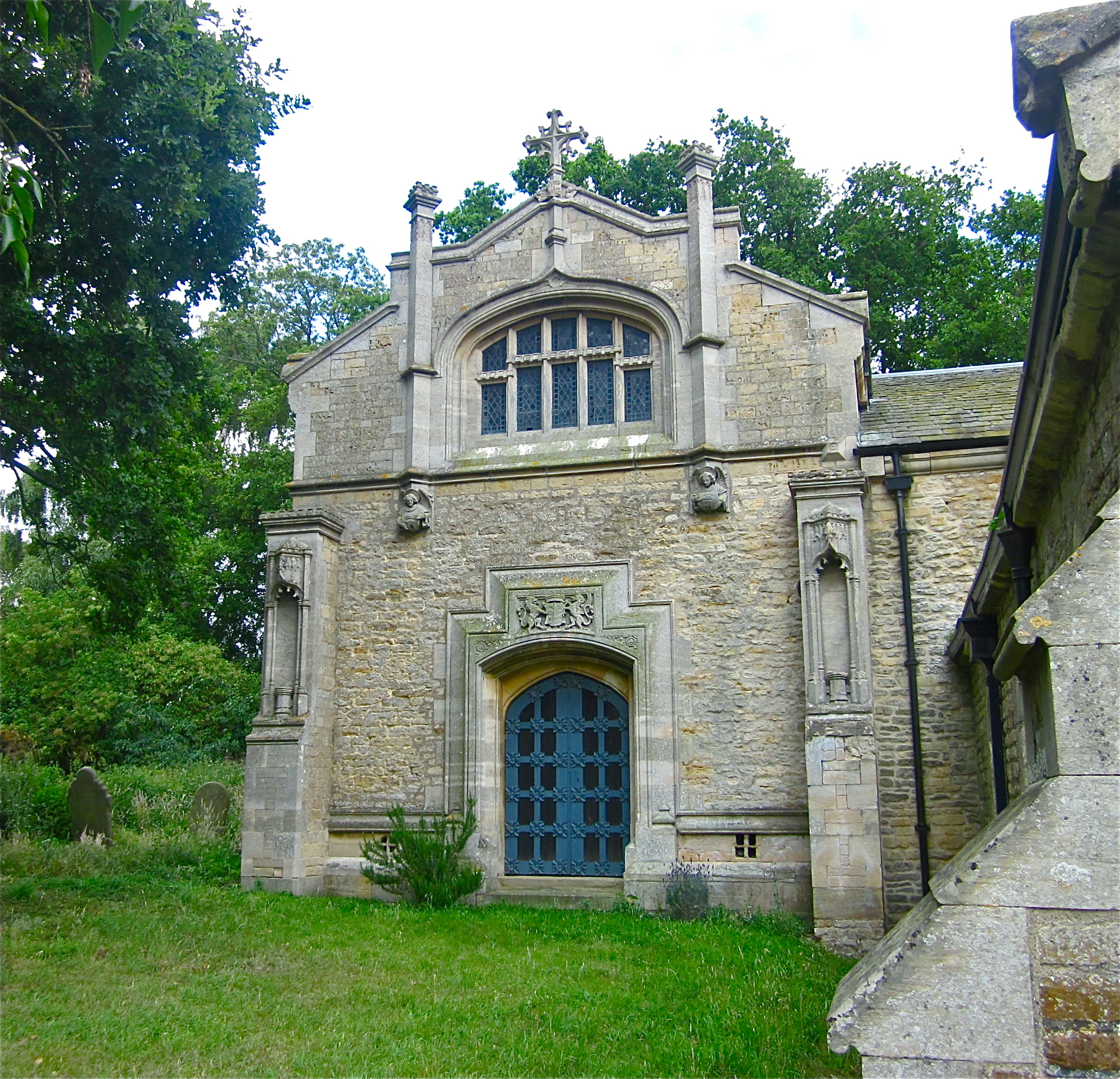 Monson family mausoleum on the north side of the parish church of St John the Baptist, South Carlton, Lincolnshire, seen from the west